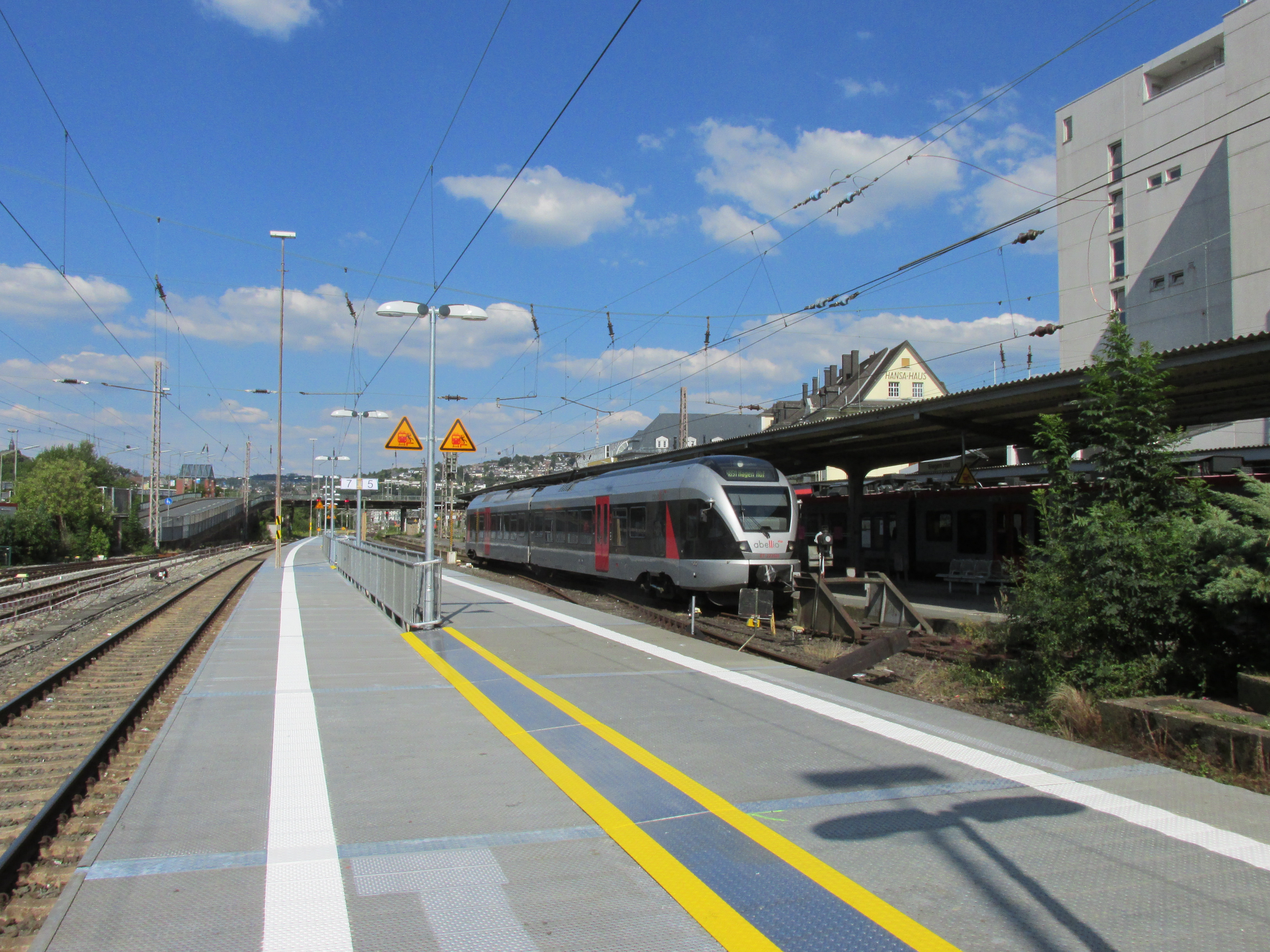 Platforms 5 and 7 during renovation works at the train station, Siegen, Germany check usage